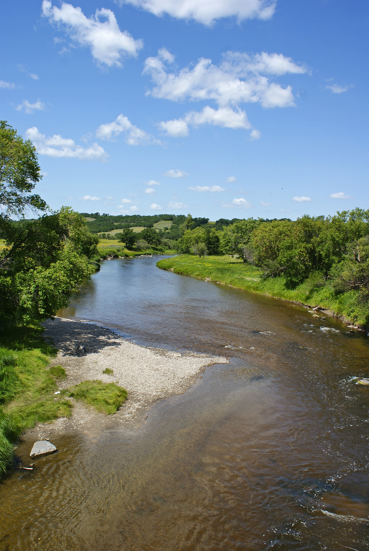 The Little Saskatchewan River taken from Daly Centennial Bridge past Grand valley road and Highway 1, in Westman Manitoba.